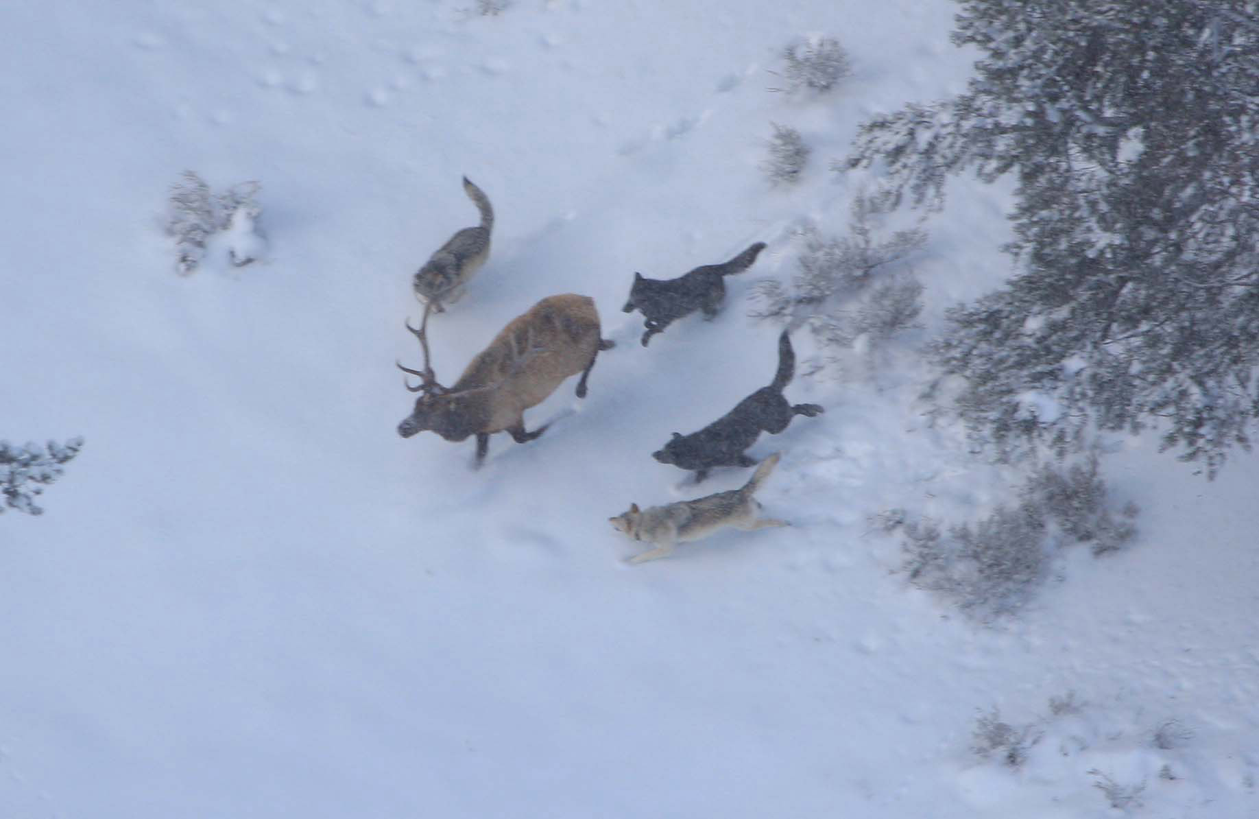 Wolves chasing an elk